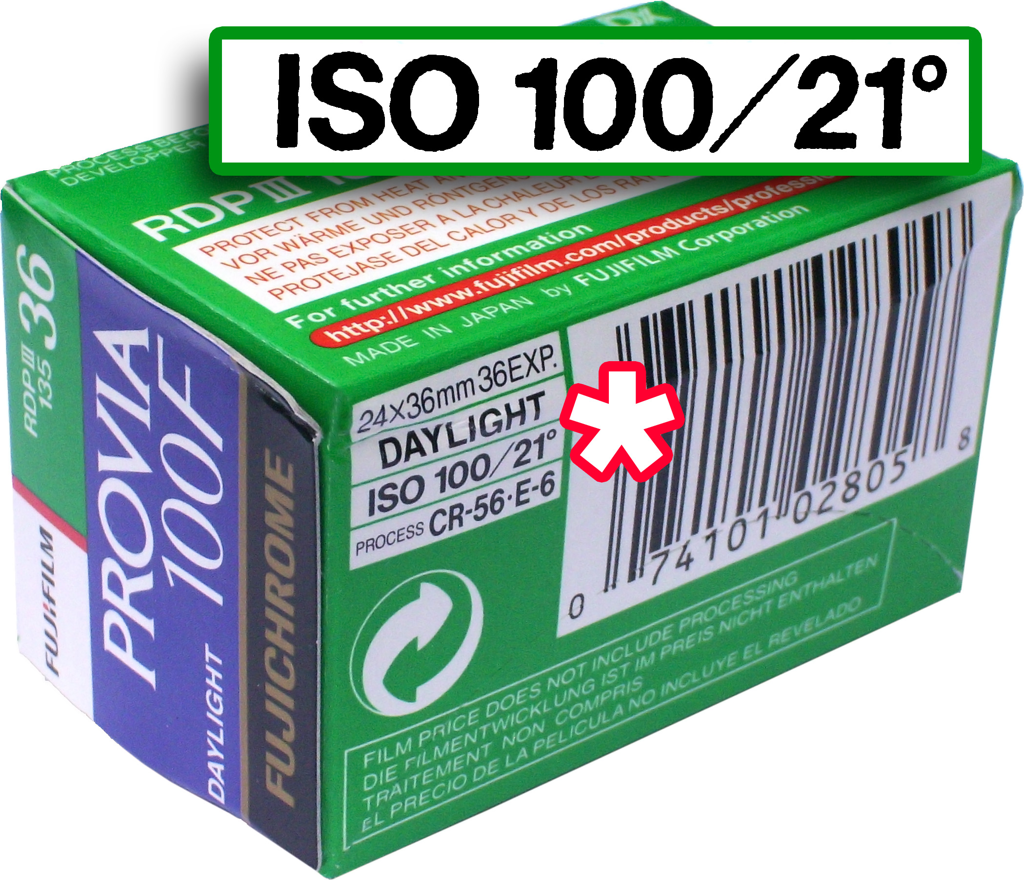 Fujifilm Provia 100F [RDP III] 35mm packaging - back of box